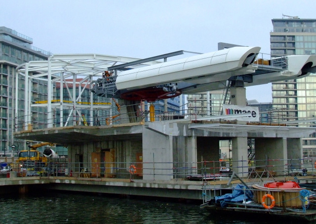 Cross-Thames gondola station under construction at the north west corner of Royal Victoria Dock. For more information, see Wikipedia article Emirates Air Line (cable car)